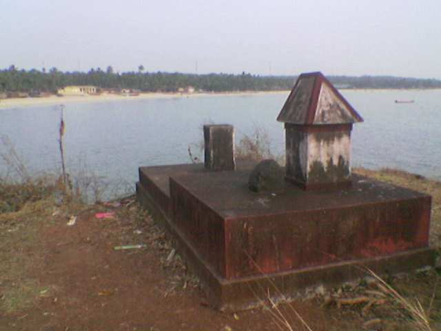 A monument near in Bekal Fort.